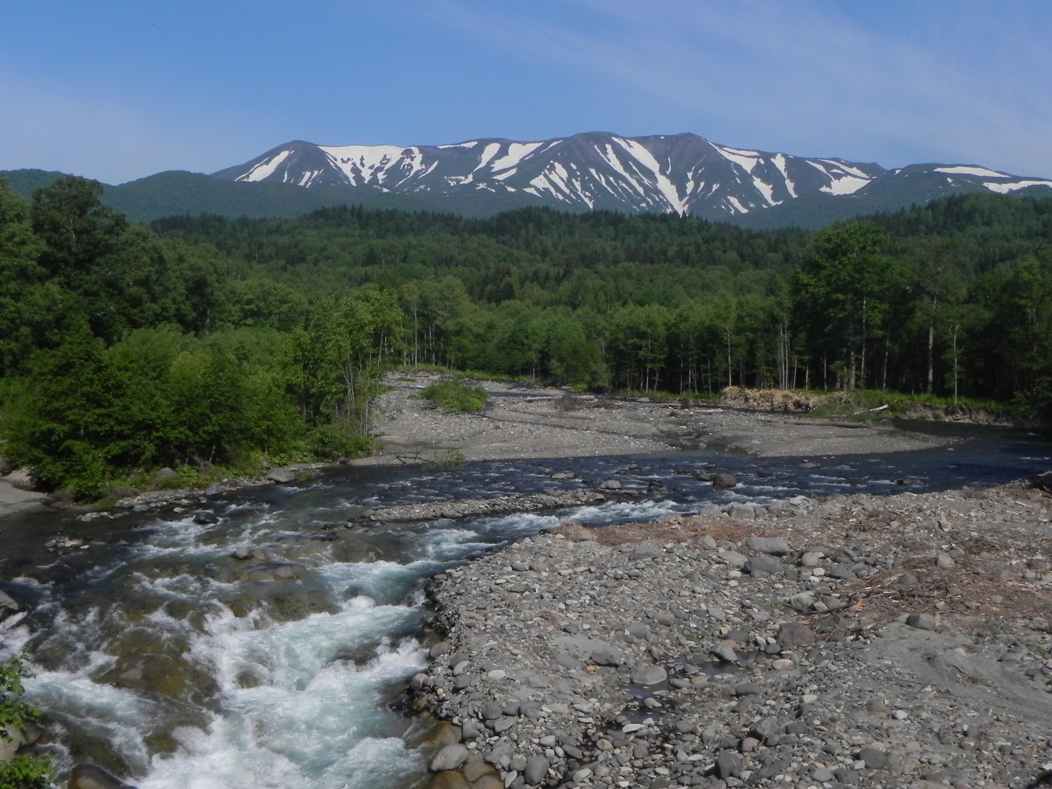 Daisetsu Volcano Group seen from the ESE.